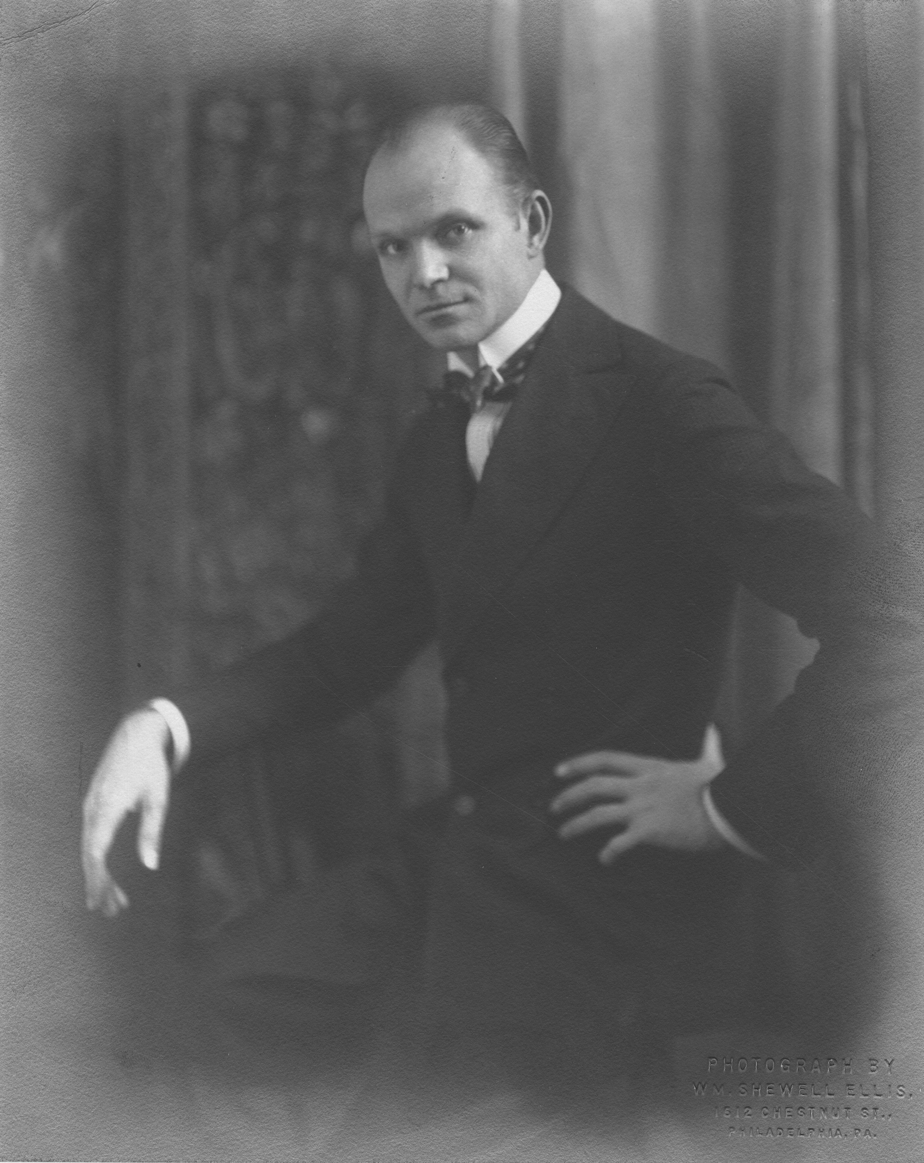 Scope and content: Date Taken: 04/0/1918 Photographer: Wm. Shewell Ellis